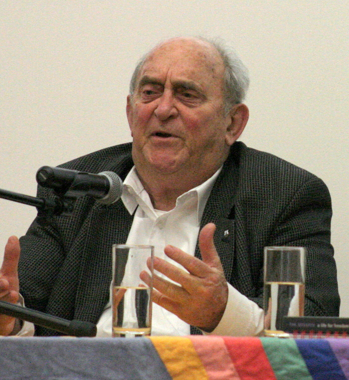 Denis Goldberg, South African anti-apartheid activist, speaking at the launch of the Edinburgh World Justice Festival, 12 October 2013 in the Grassmarket Community Centre.